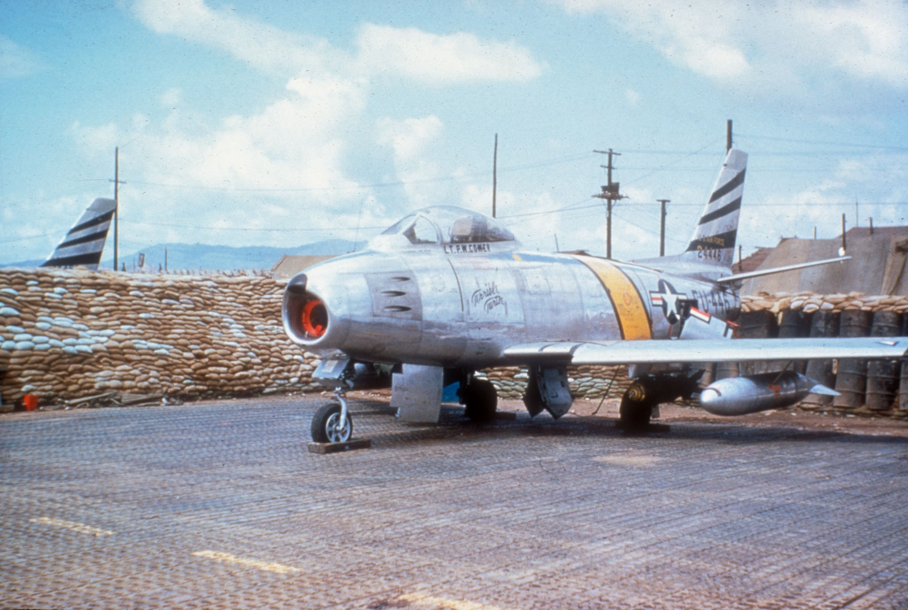 A U.S. Air Force North American F-86F-30-NA Sabre (s/n 52-4446), nicknamed "Terrible Turtle" of the 35th Fighter-Bomber Squadron, 8th Fighter-Bomber Wing, flown by 1st Lt. Perrin W. Gower, in Korea.